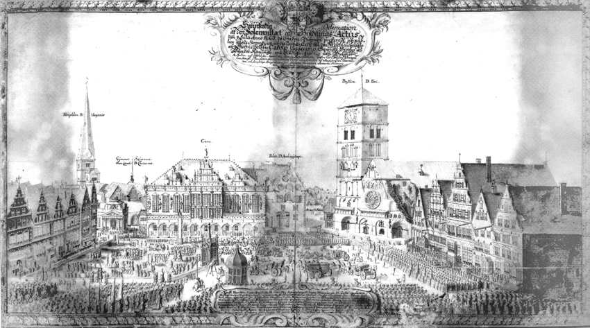 Hommage of the city of Bremen, Germany, to the swedish general Carl Gustav Wrangel in 1666 after the signing of the treaty Frieden zu Habenhausen (“Peace of Habenhausen”). The buldings around the square are depicted quite well, but the presentation of the place in all is fictional. The convex front of buldings in the west prevented the entire view. From parts of it, there was a frontal view on the western façade of the cathedral, but from nowhere exept of the adjacent street, there was a southwestern view at the church.